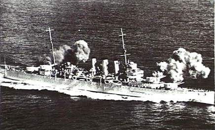 The Royal Navy cruiser HMS Devonshire at speed, firing her 8 inch guns. The red, white and blue bands on B turret are Spanish Civil War neutrality markings. They date the photograph between 1936 and 1939.